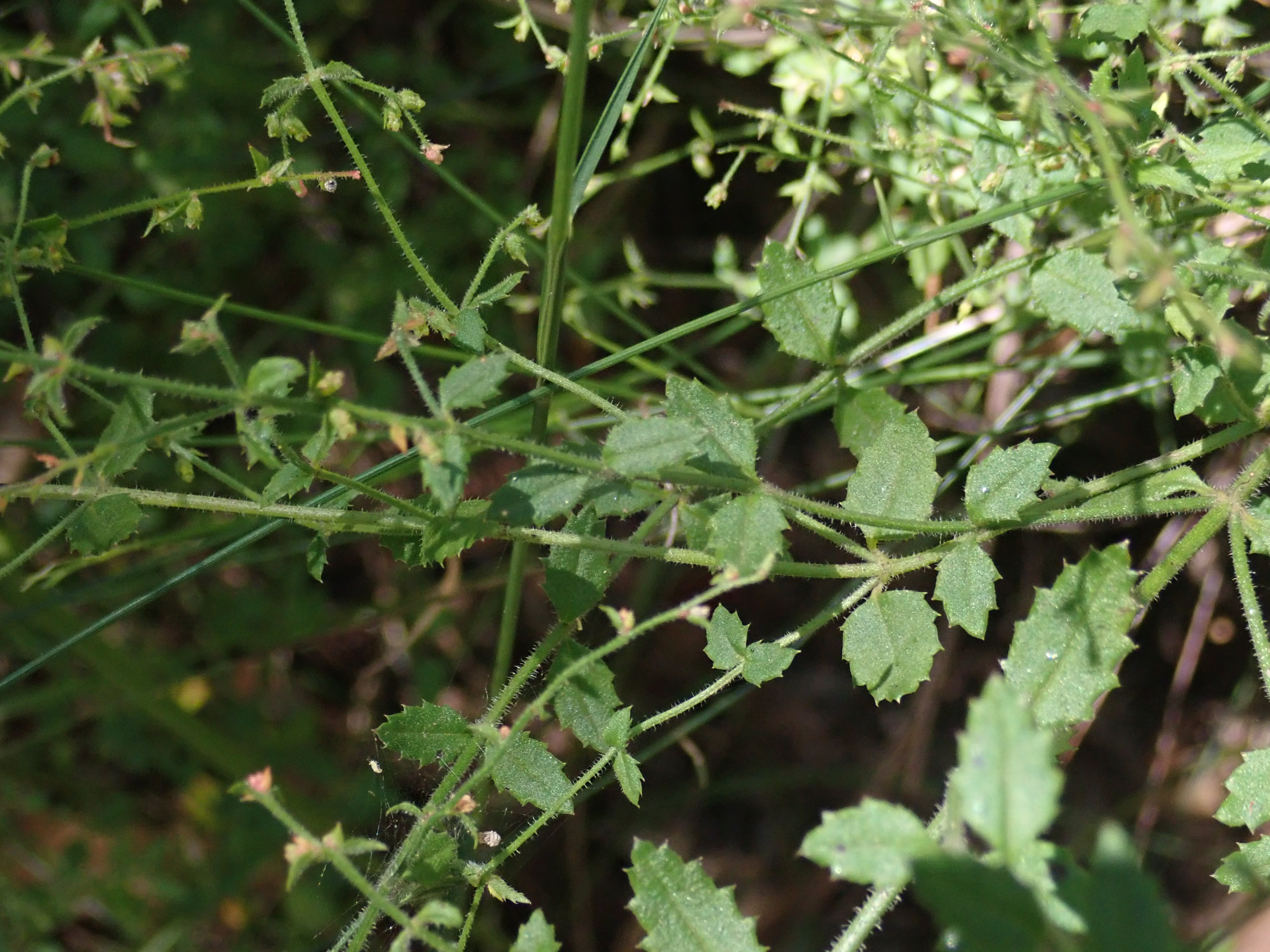 Gonocarpus teucrioides, Lane Cove NP, 13/11/2019